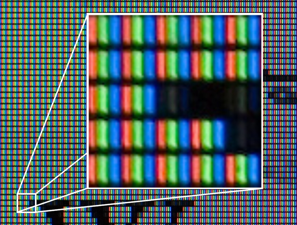 Macro shot of an LCD monitor showing the red, green and blue elements. I USer:Ravedave added the zoom box to the original image: Image:Liquid_Crystal_Display_Macro_Example.jpg